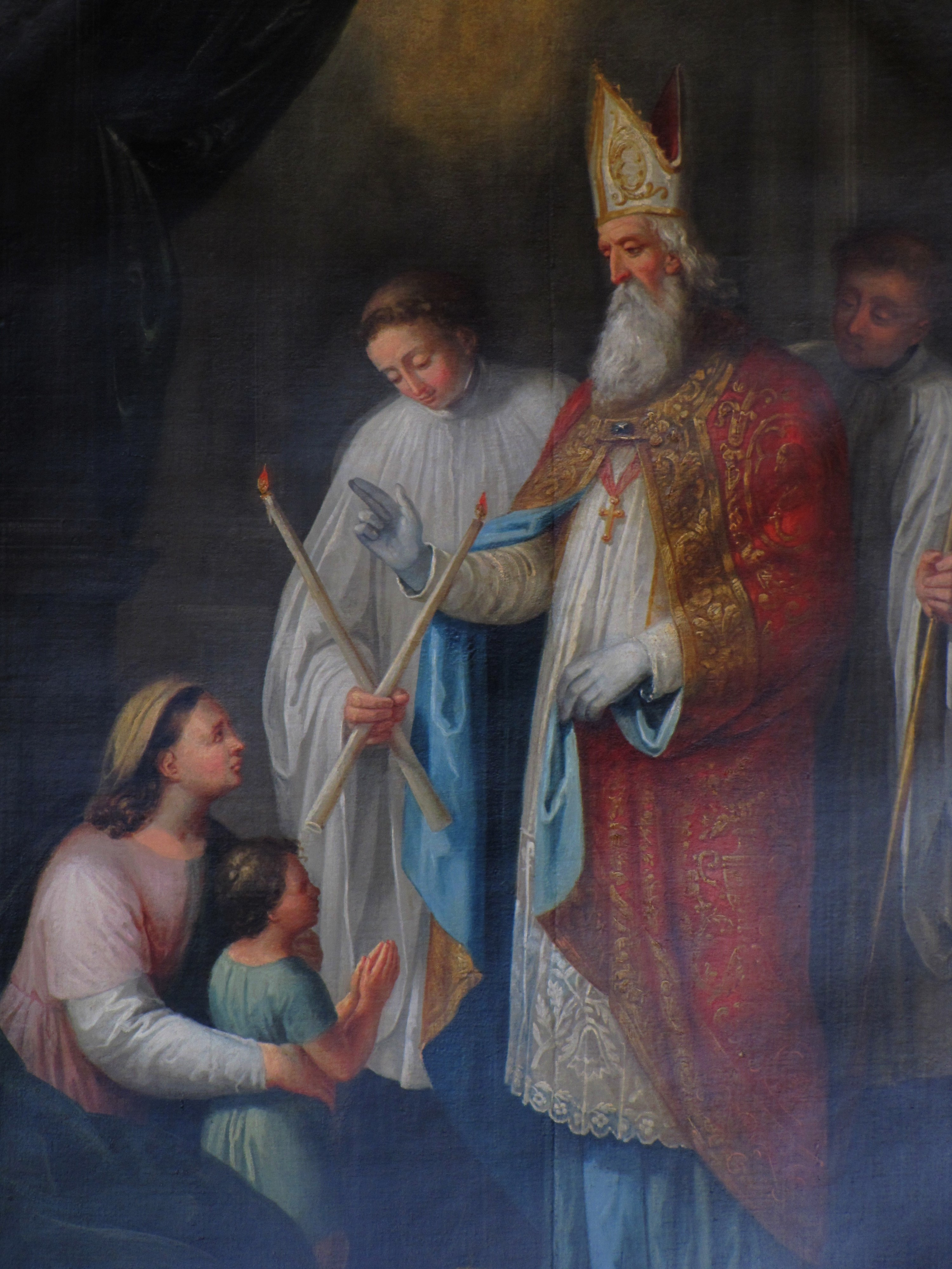 Alsace, Bas-Rhin, Valff, Église Saint-Blaise (PA00085206, IA00024037). Tableau du maître-autel "Saint-Blaise" (vers 1740): This object is classé Monument Historique in the base Palissy, database of the French furniture patrimony of the French ministry of culture, under the references PM67000418 and IM67001618.